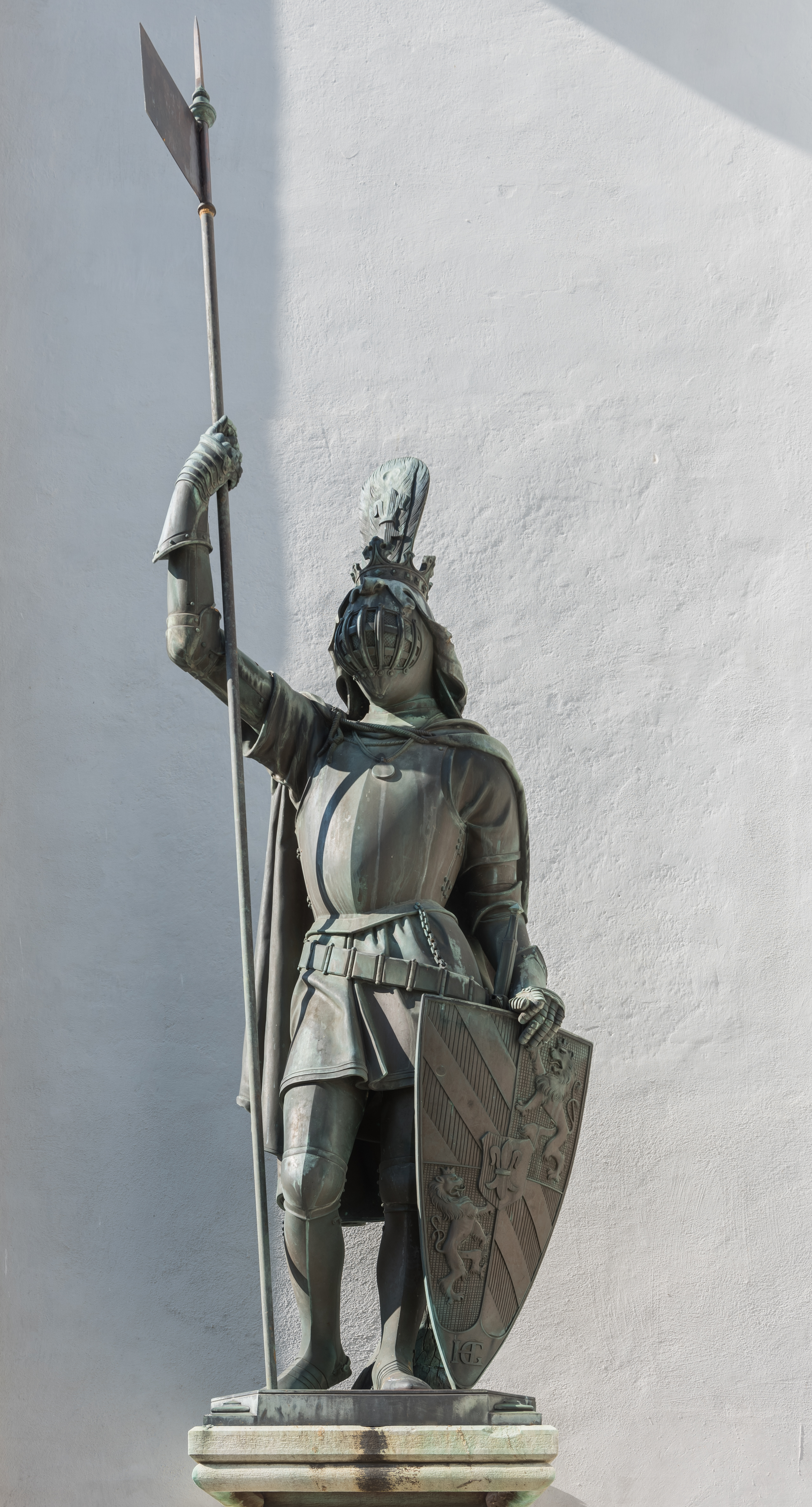 Bronze knight (created by Hanns Gasser, 1860) at the tomb of Baron Kaiserstein in front of the subsidiary church Saint Ulrich next to Krastowitz, 10th district "Sankt Peter-Welzenegg", Gottscheer Street #1, municipality Klagenfurt, Carinthia, Austria, EU